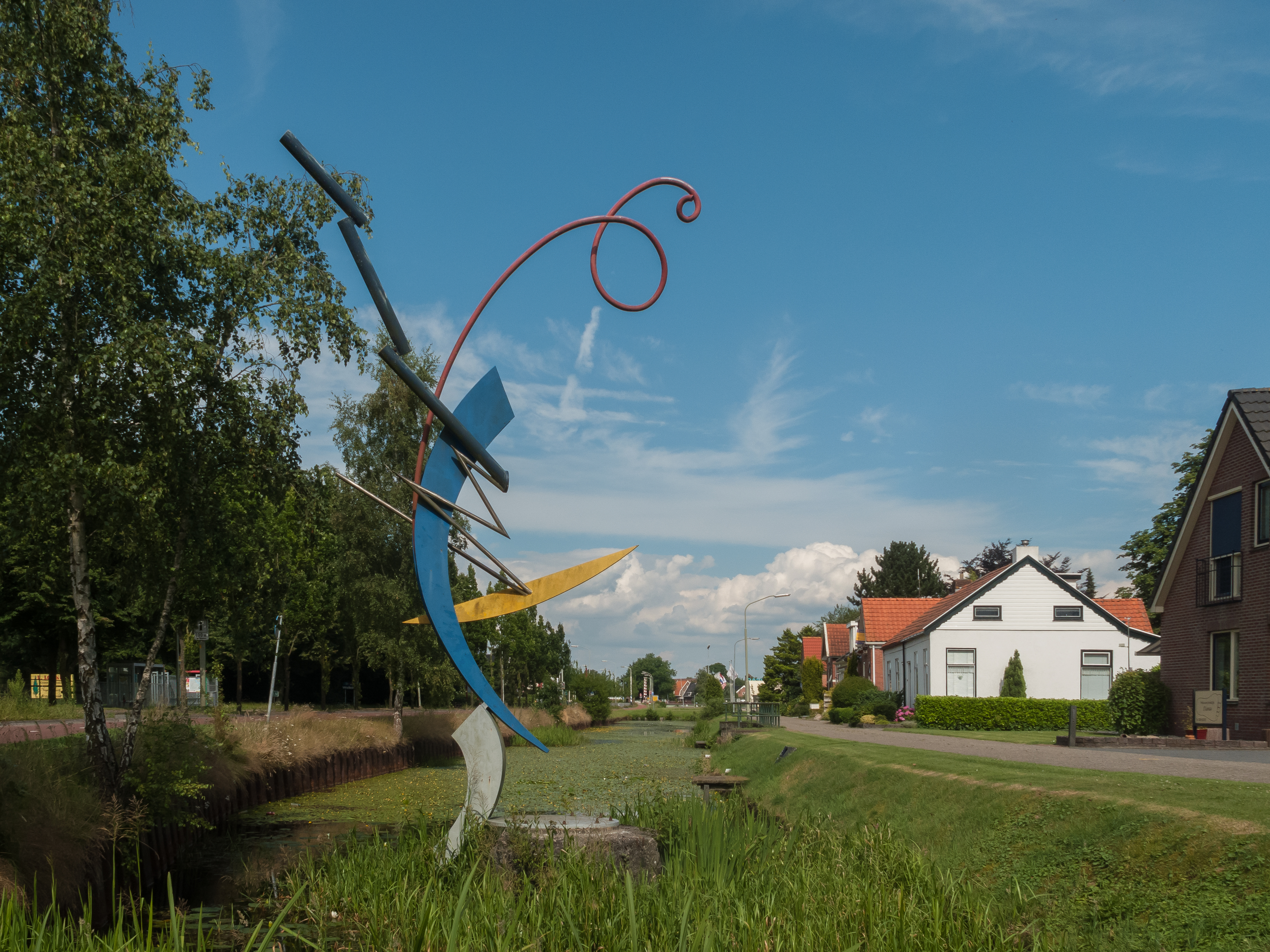 Gasselternijveenschemond, art in the street